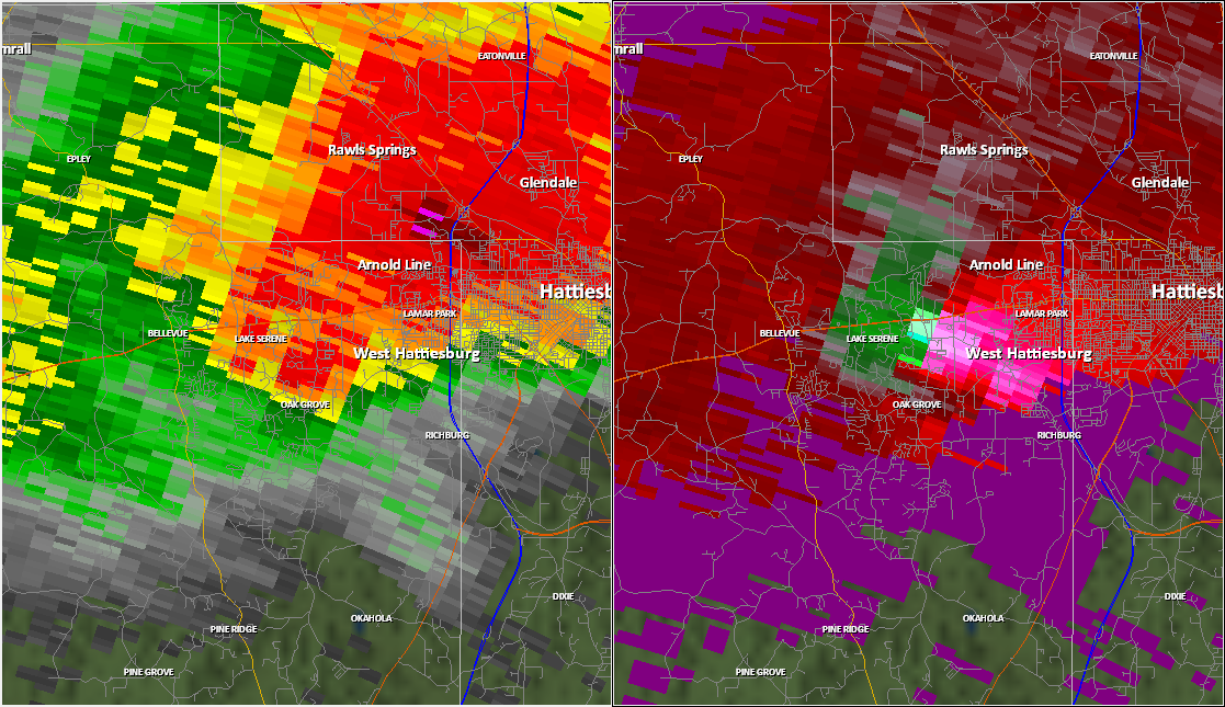 Radar image of the supercell that produced the 2013 Hattiesburg, Mississippi tornado. Base reflectivity is on the left and storm relative velocity on the right.